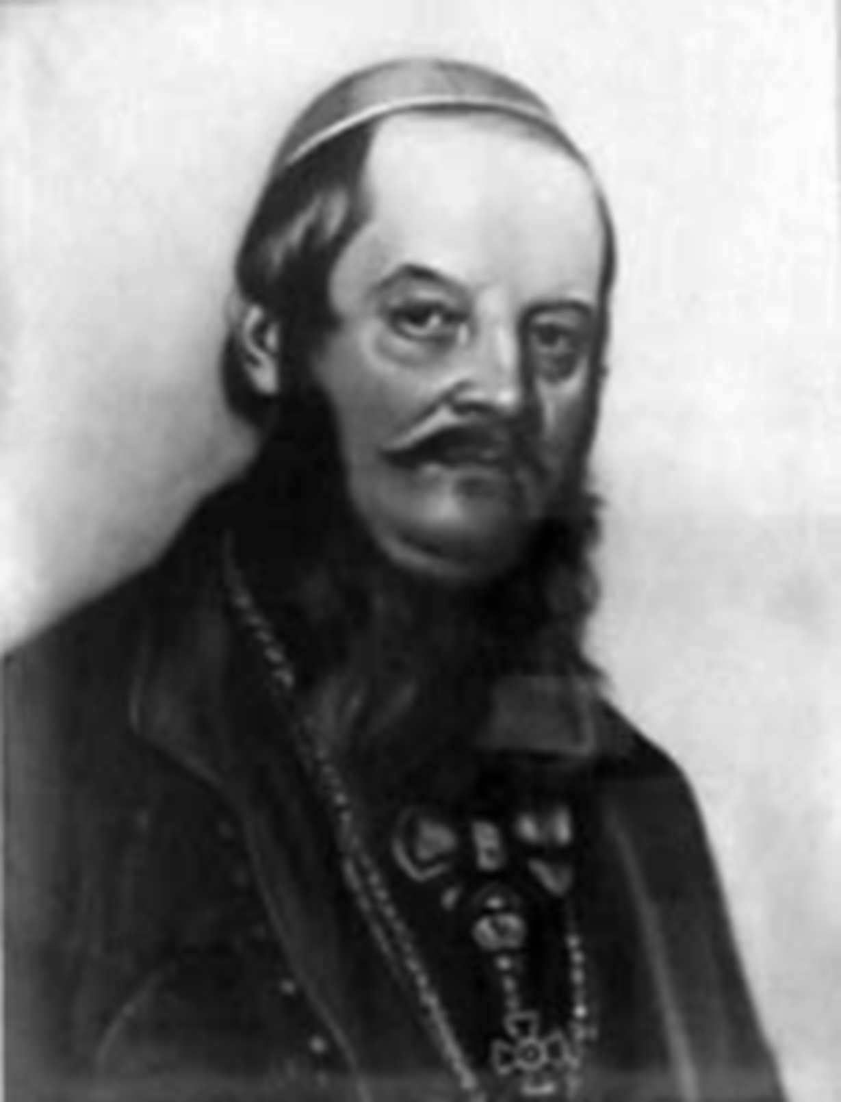 Vasile_Erdelyi (1794–1862), Bishop of the Diocese of Oradea Mare of the Romanian Greek Catholic Church from 1842 to 1862.